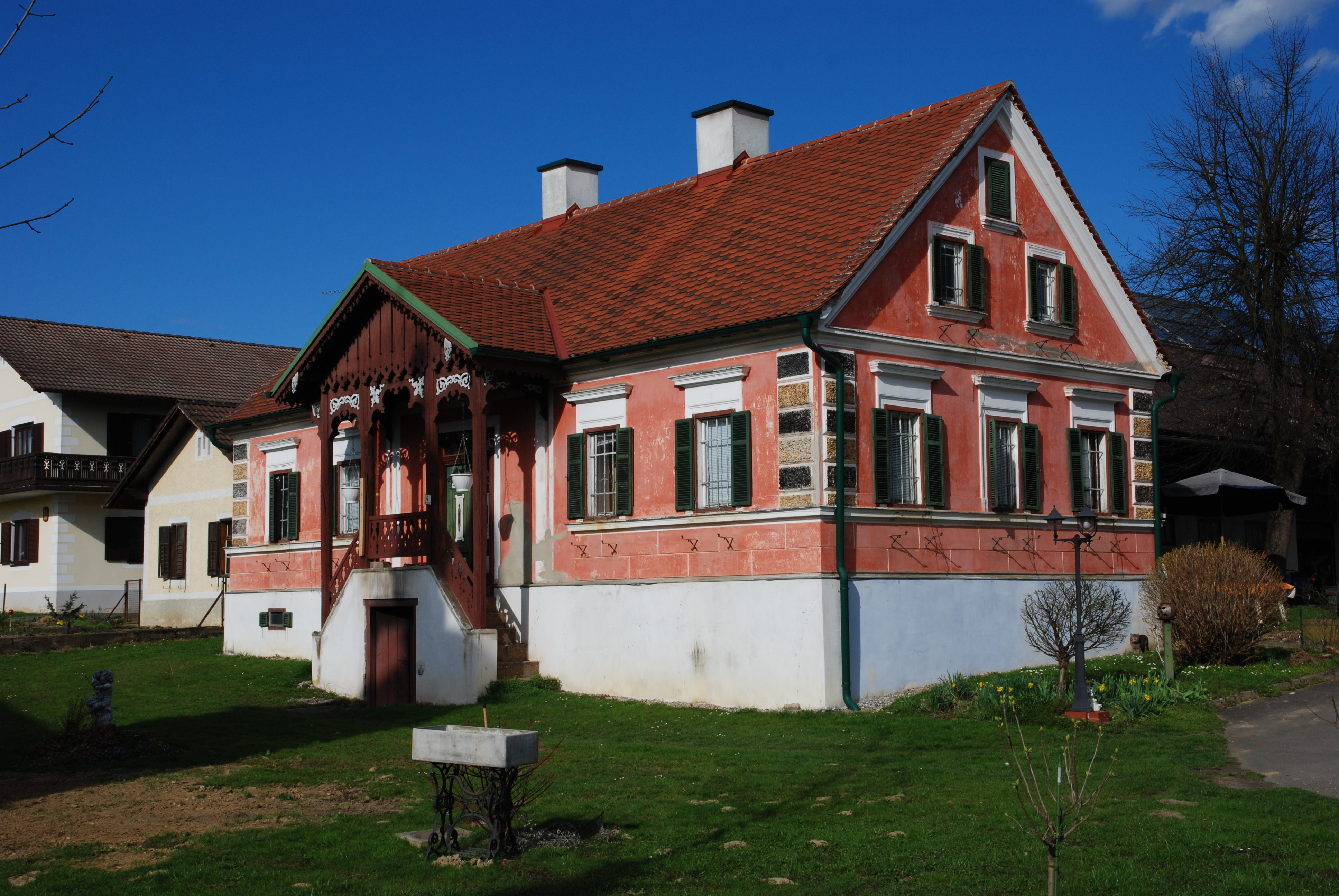 Bauernhaus Rannersdorf